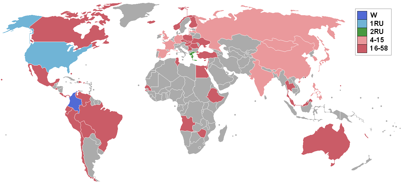 Miss International 2004 results map